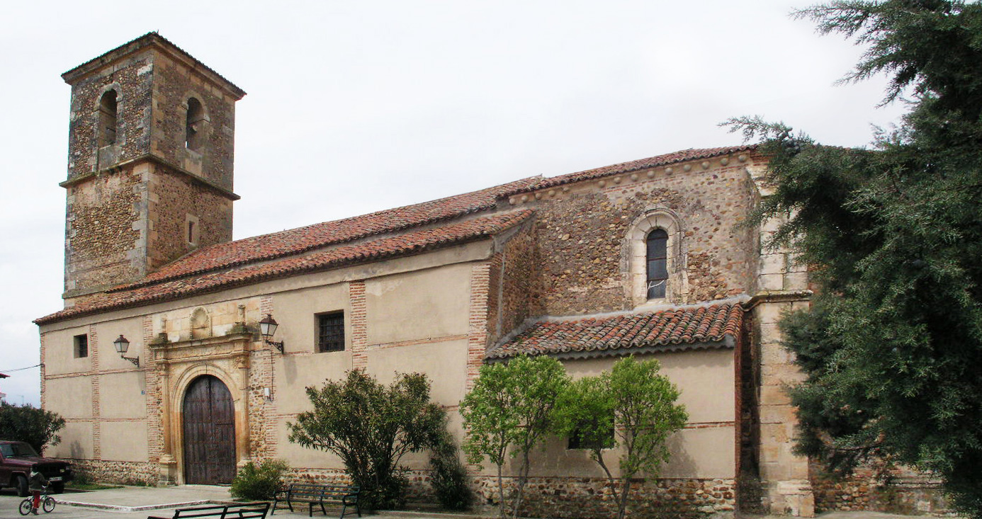 Malaguilla, Provincia de Guadalajara, Castilla-La Mancha, Spain. Church. The photo was taken the 8th of April 2004 by Håkan Svensson (Xauxa).